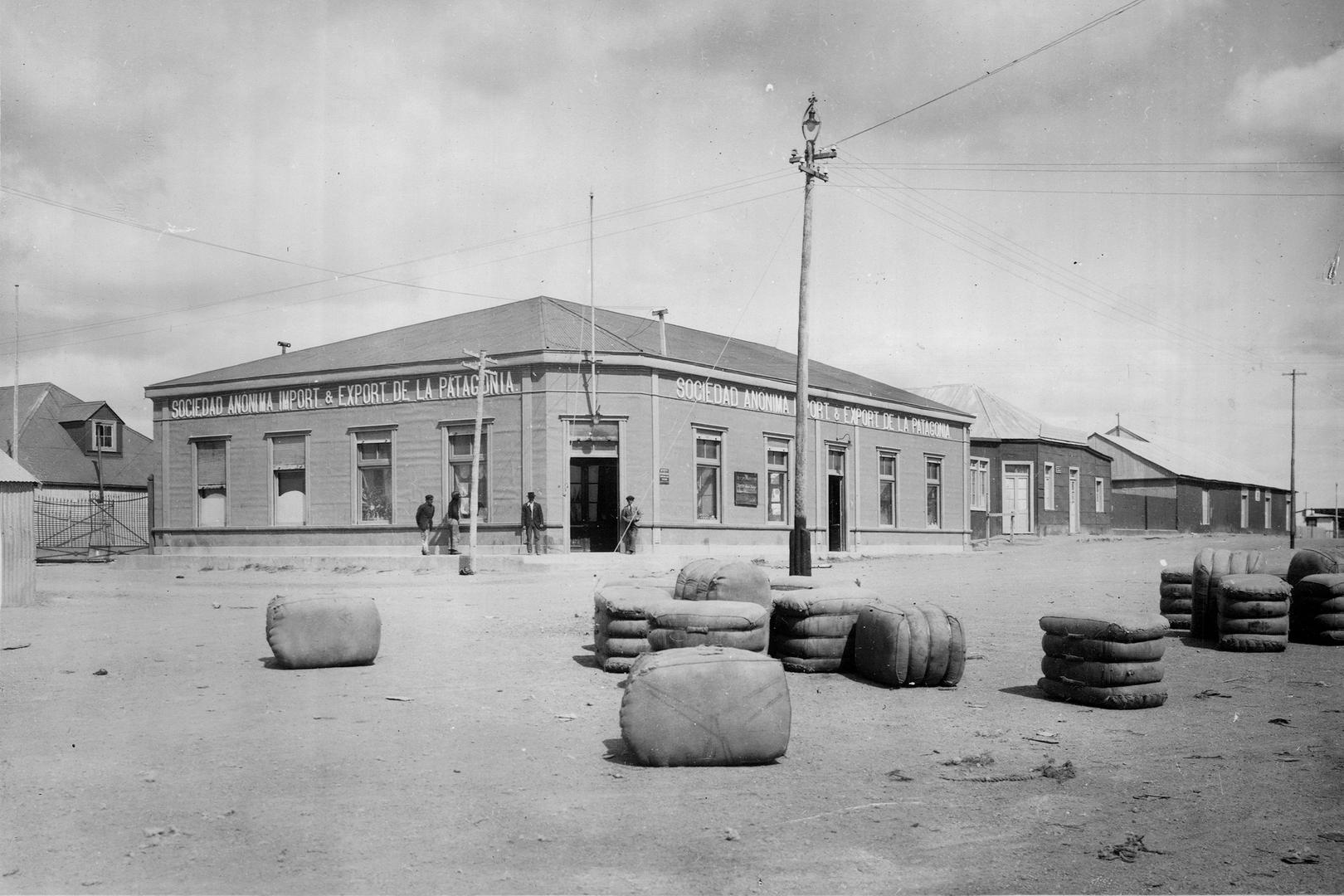 Early days of the Sociedad Anónima Importadora y Exportadora de la Patagonia, now known as La Anonima, a supermarlet chain in Argentina.